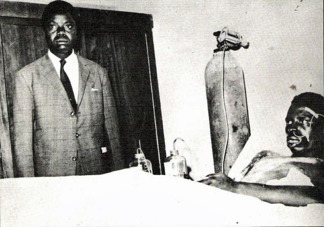 Moise Tshombe visits a Katangese civilian that was wounded in the fighting between Katangese forces and UN forces during Operation Unokat.